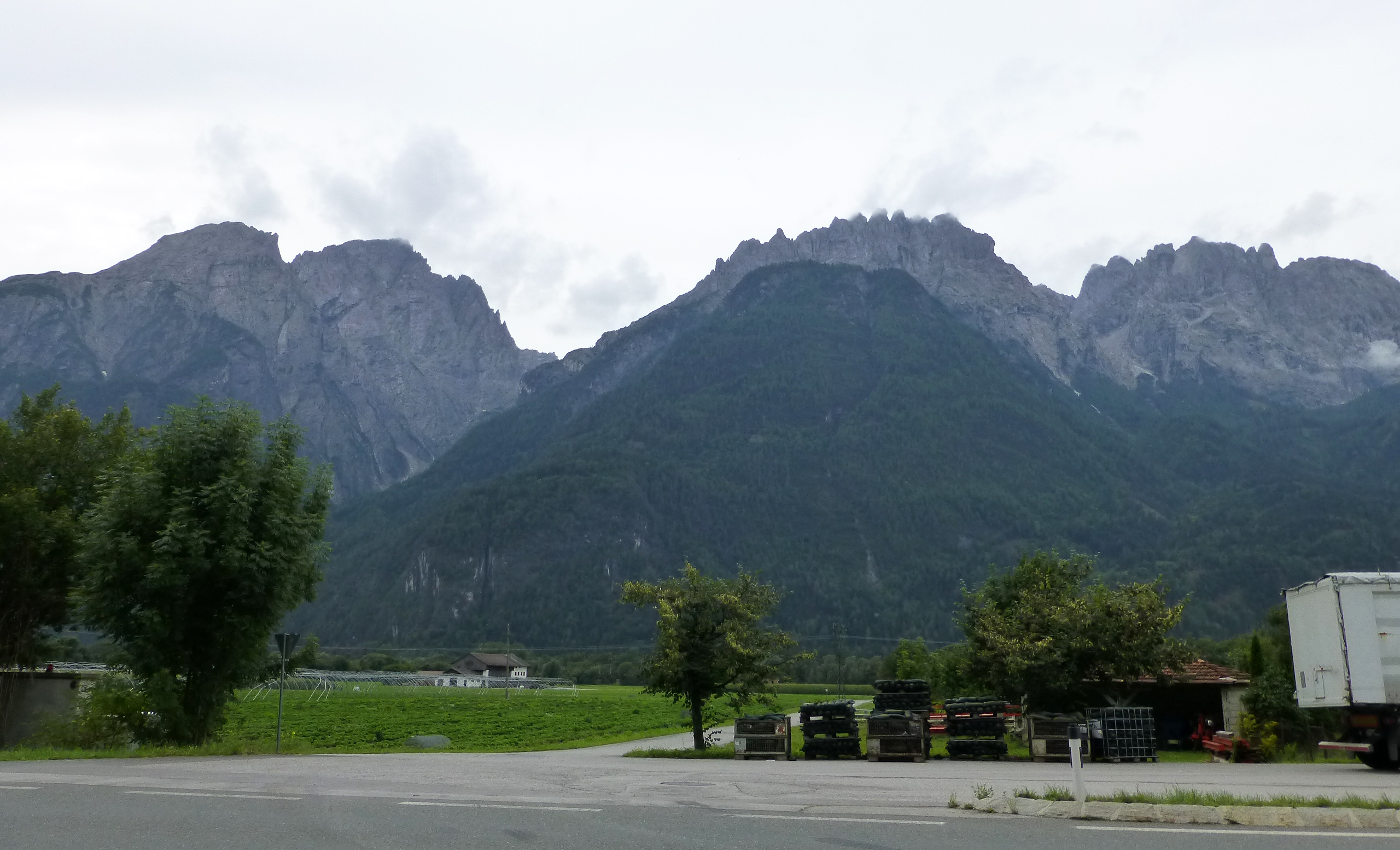 The Dolomites of Lienz, seen from road 100 to the south. Keilspitzen and Laserzwand.